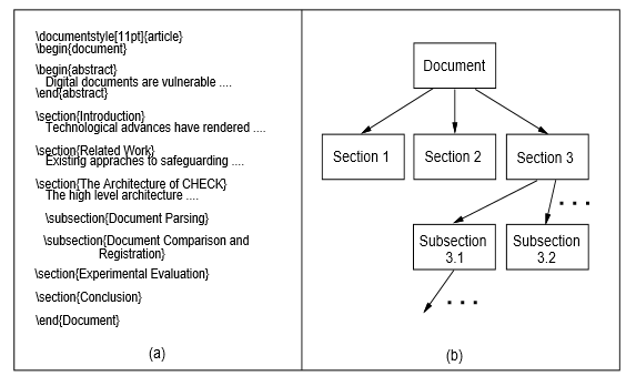 Tree.png